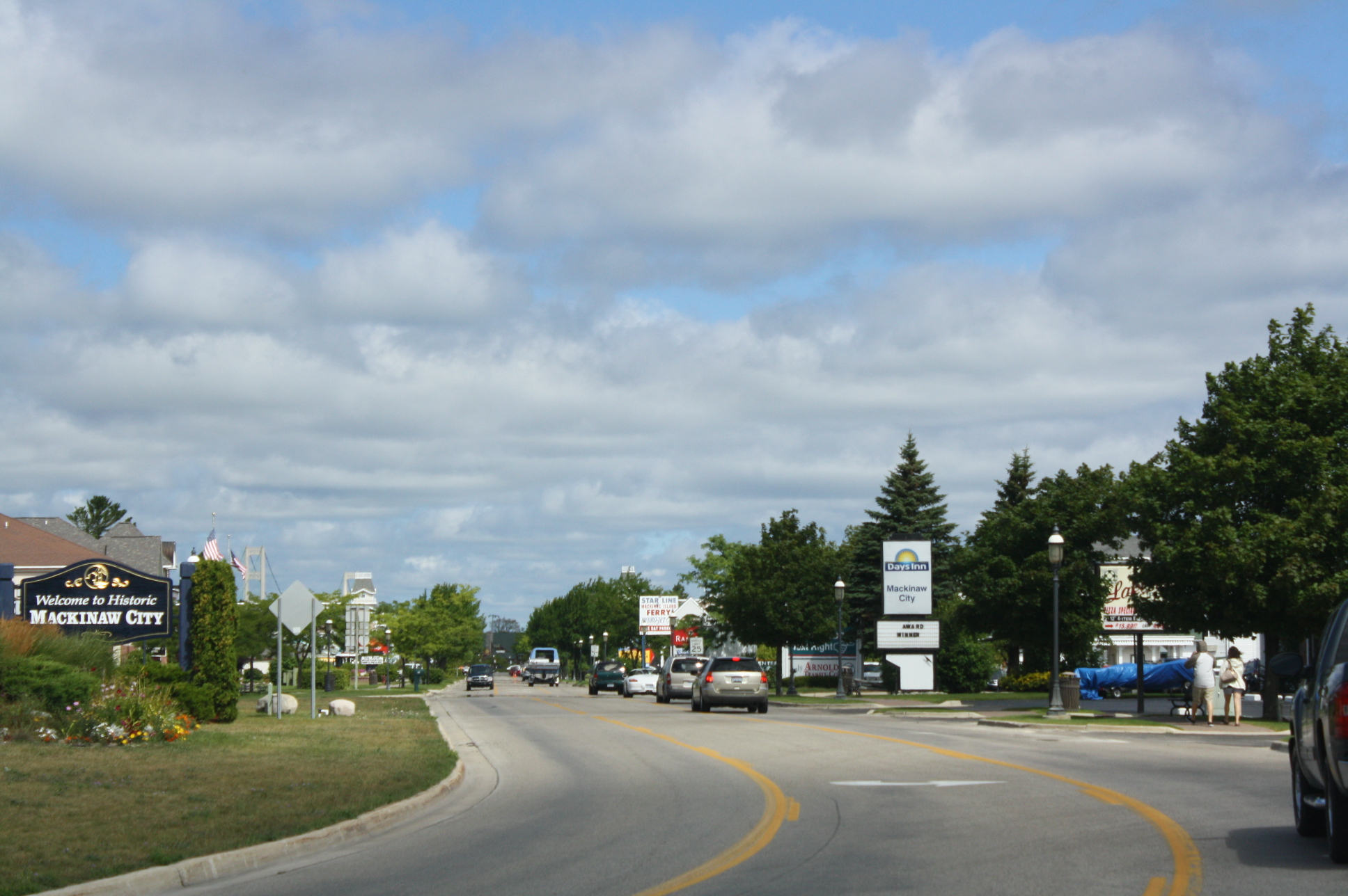 A district of hotels in Mackinaw City, Michigan.